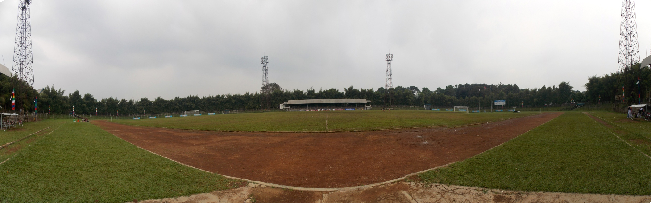 A panoramic view of Pajajaran Stadium's football field.